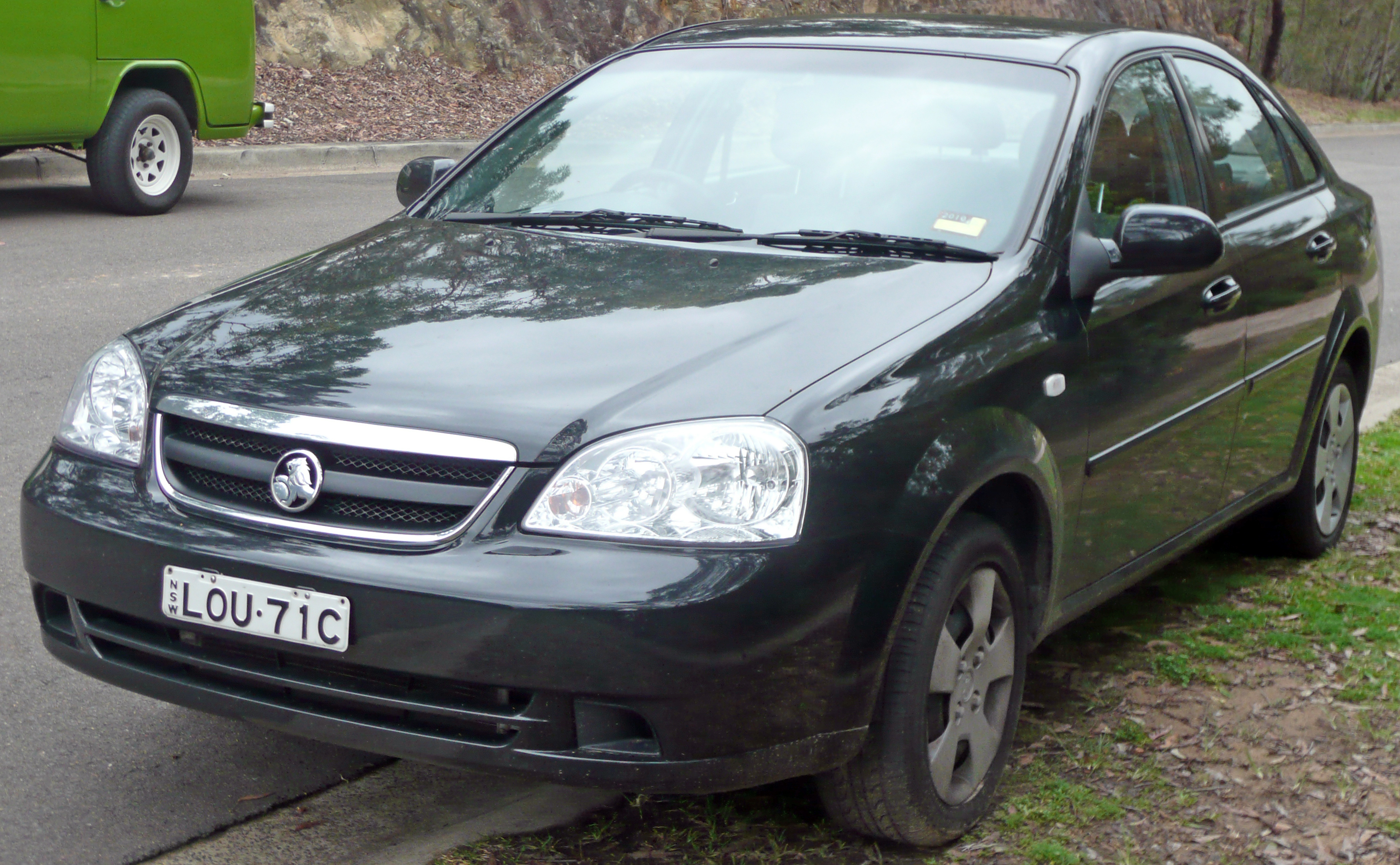 2005–2007 Holden Viva (JF) sedan. Photographed in New South Wales, Australia.